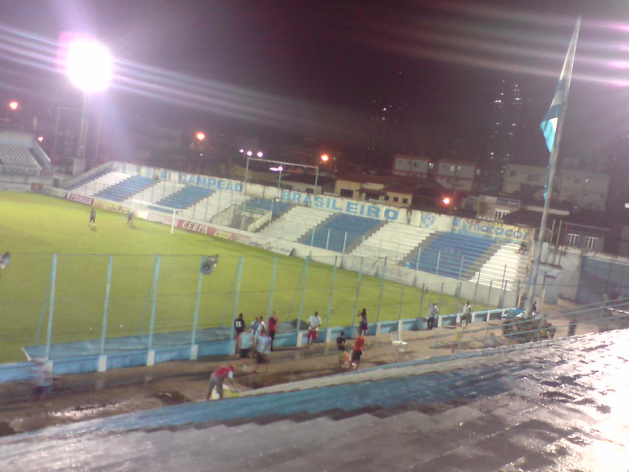 Curuzu by night